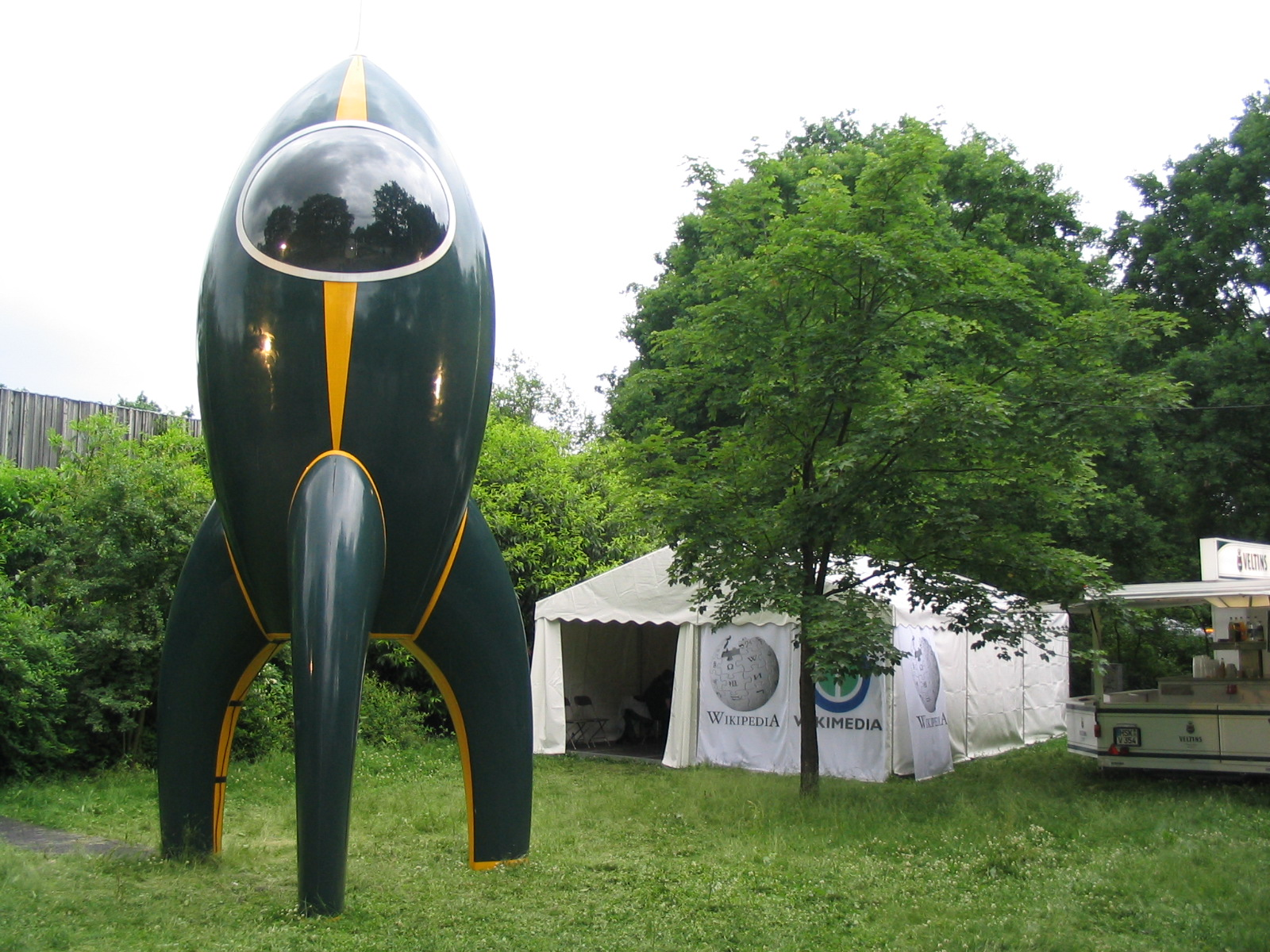 Wikipedia-tent and CCC-rocket